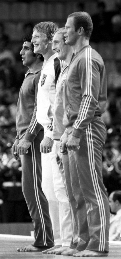 “Award ceremony for judo at 1980 Olympics”. Before the award ceremony of the winning judoka in half-heavyweight (95kg). XXII Olympic Summer Games (July 19-August 3).